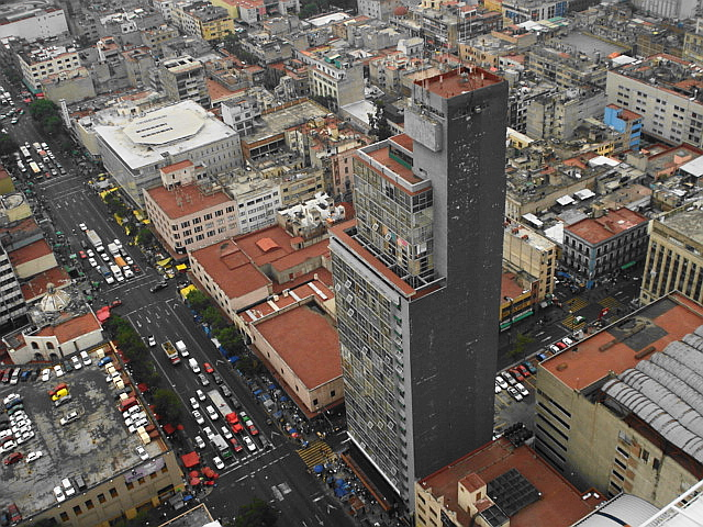 Building Miguel E Aben in Mexico City.